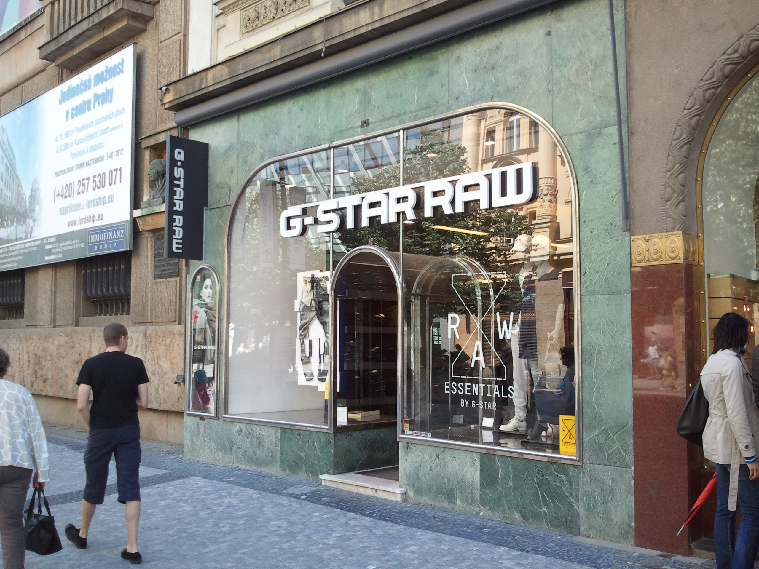 A G Star Raw store